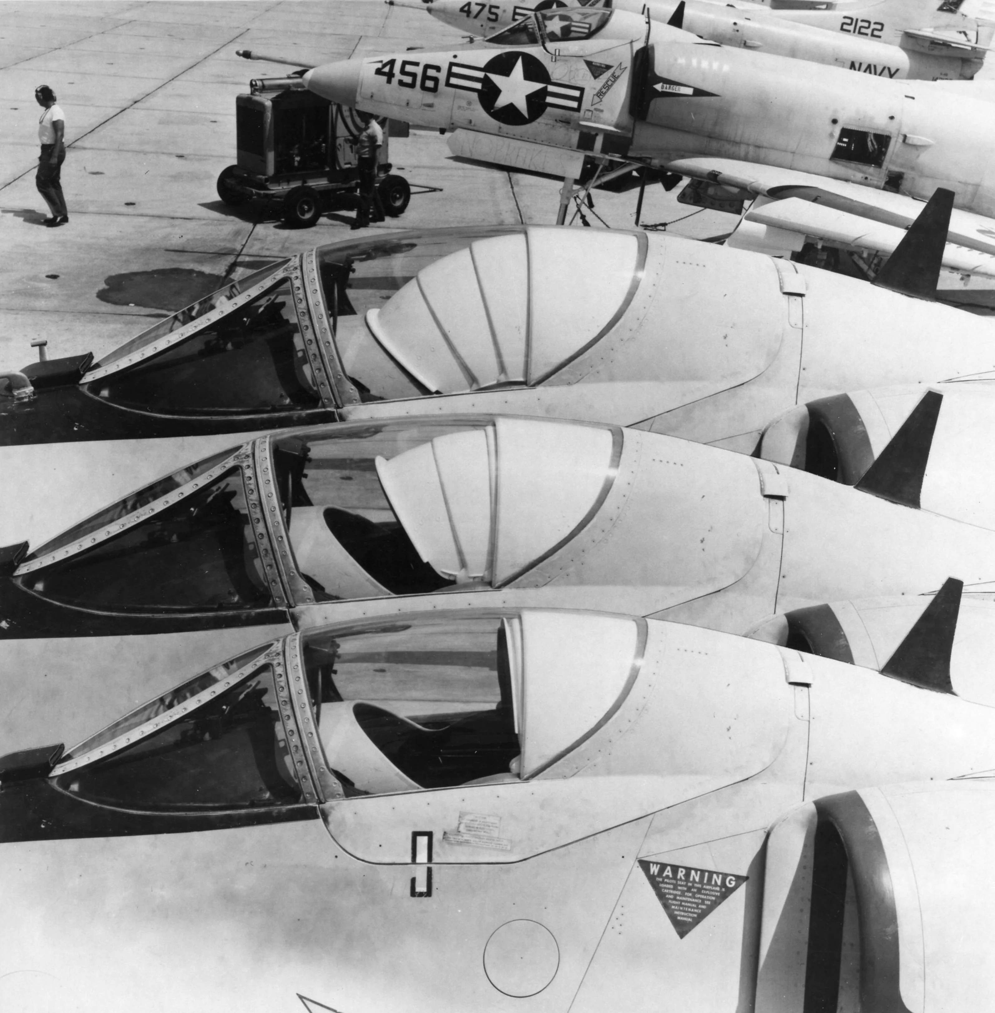 A Douglas A-4E Skyhawk of USN attack squadron VA-44 Hornets showing the thermal shield in different positions. The device was to be used after the delivery of a nuclear weapon, so that the pilot would be protected against the flash of the detonation. It is known that during the Lebanon crisis in 1958 Skyhawks of VA-83 Rampagers aboard the USS Essex (CVA-9), and of VA-34 Blue Blasters aboard the USS Saratoga (CVA-60) were armed with nuclear weapons and standing by for any upcoming 'emergency'.